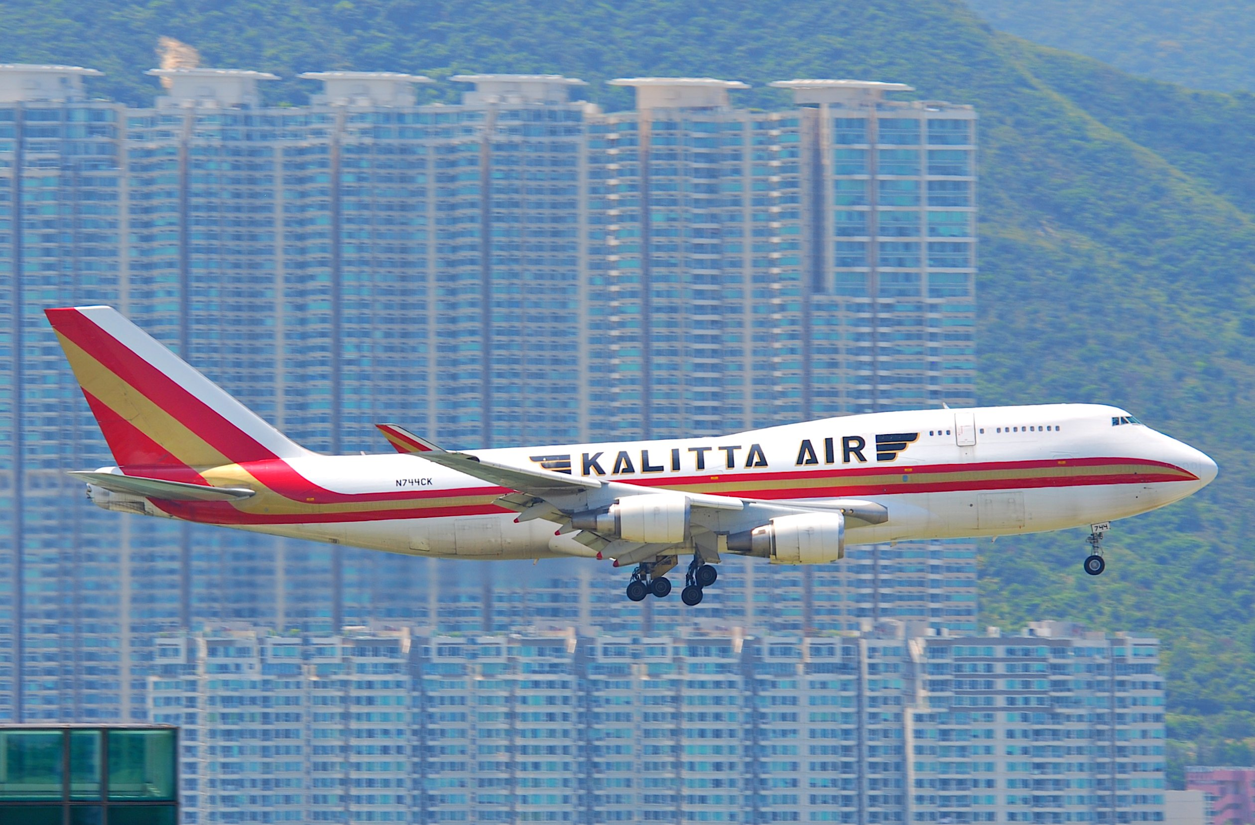 This Being 747-446 took its first flight on May 21, 1993... 07/06/1993 JAL Japan Airlines JA8909 stored 08/2009 - converted to freighter 11/2009 06/12/2010 Kalitta Air N744CK